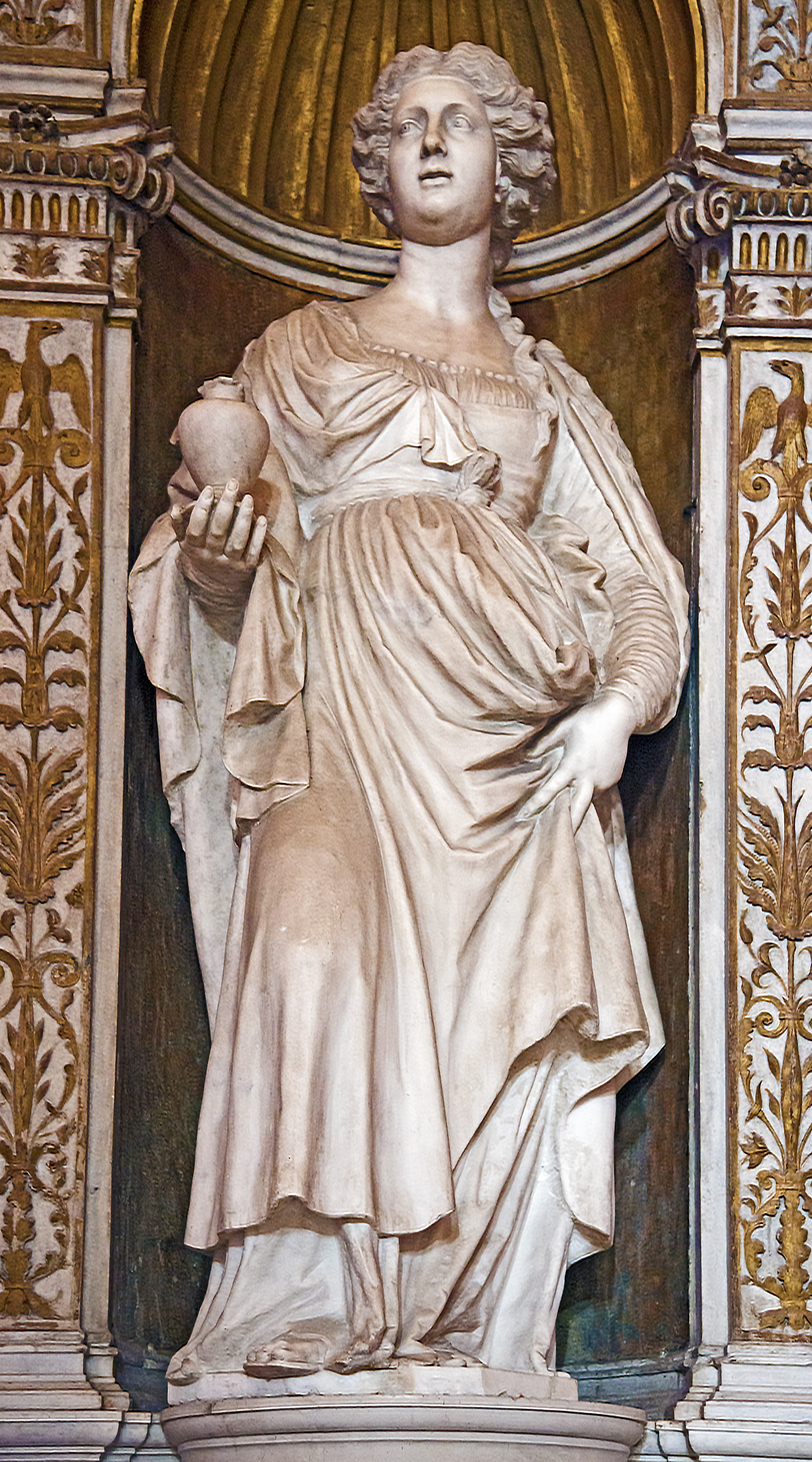 Santi Giovanni e Paolo in Venice. Chapel of Mary Magdalene - The statue of Mary Magdalene by sculptor Bartolomeo Bellano.